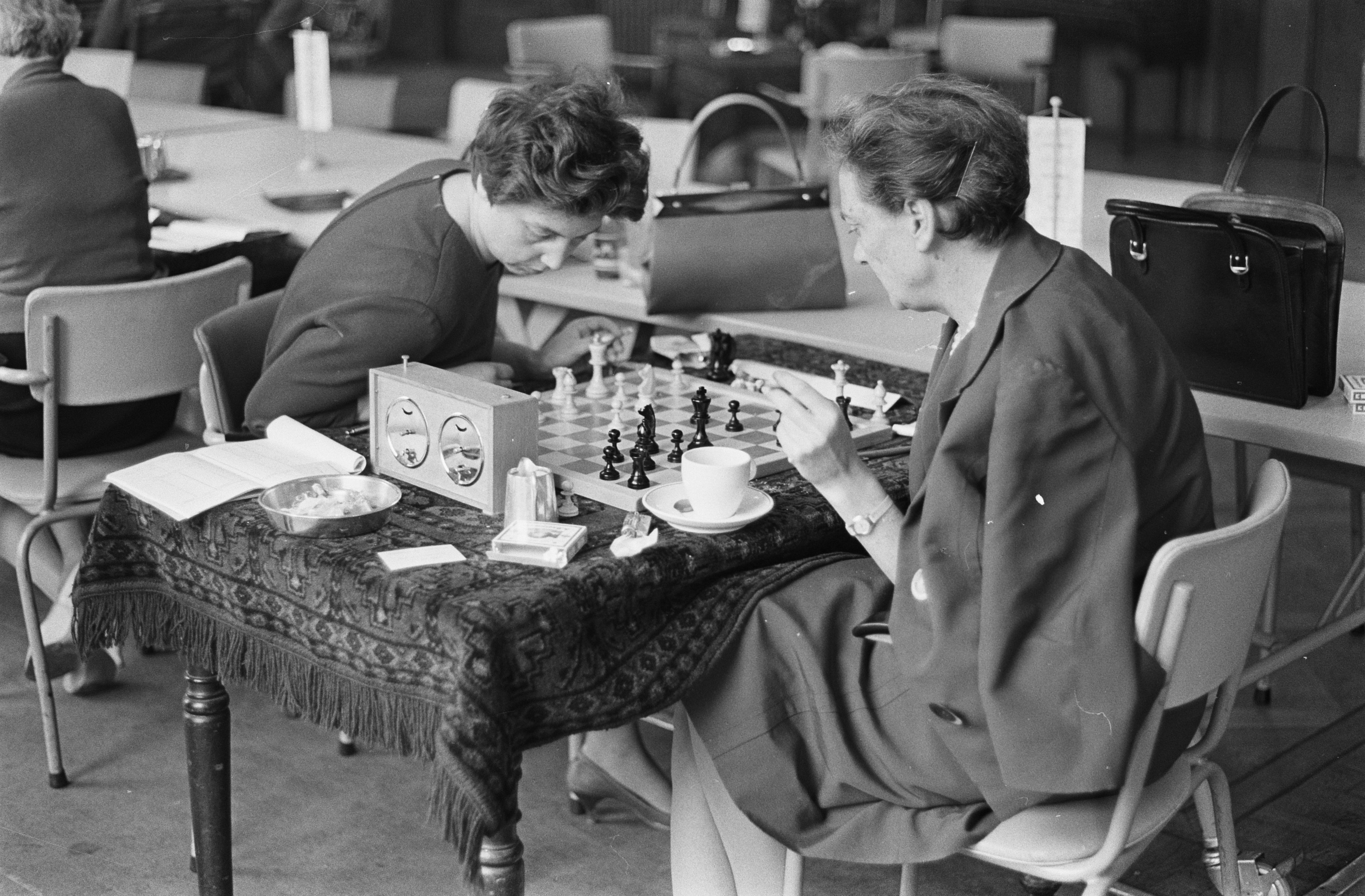 Danlon International Women's Chess Tournament, Amsterdam (NL), 24 Oct. 1962. Left: Corry Vreeken-Bouwman, right: Clarice Benini